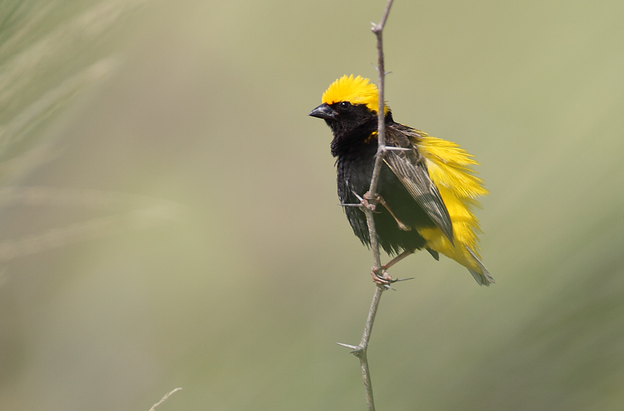 A male Yellow-crowned Bishop near Lake Baringo, Kenya, busy displaying to a nearby female.